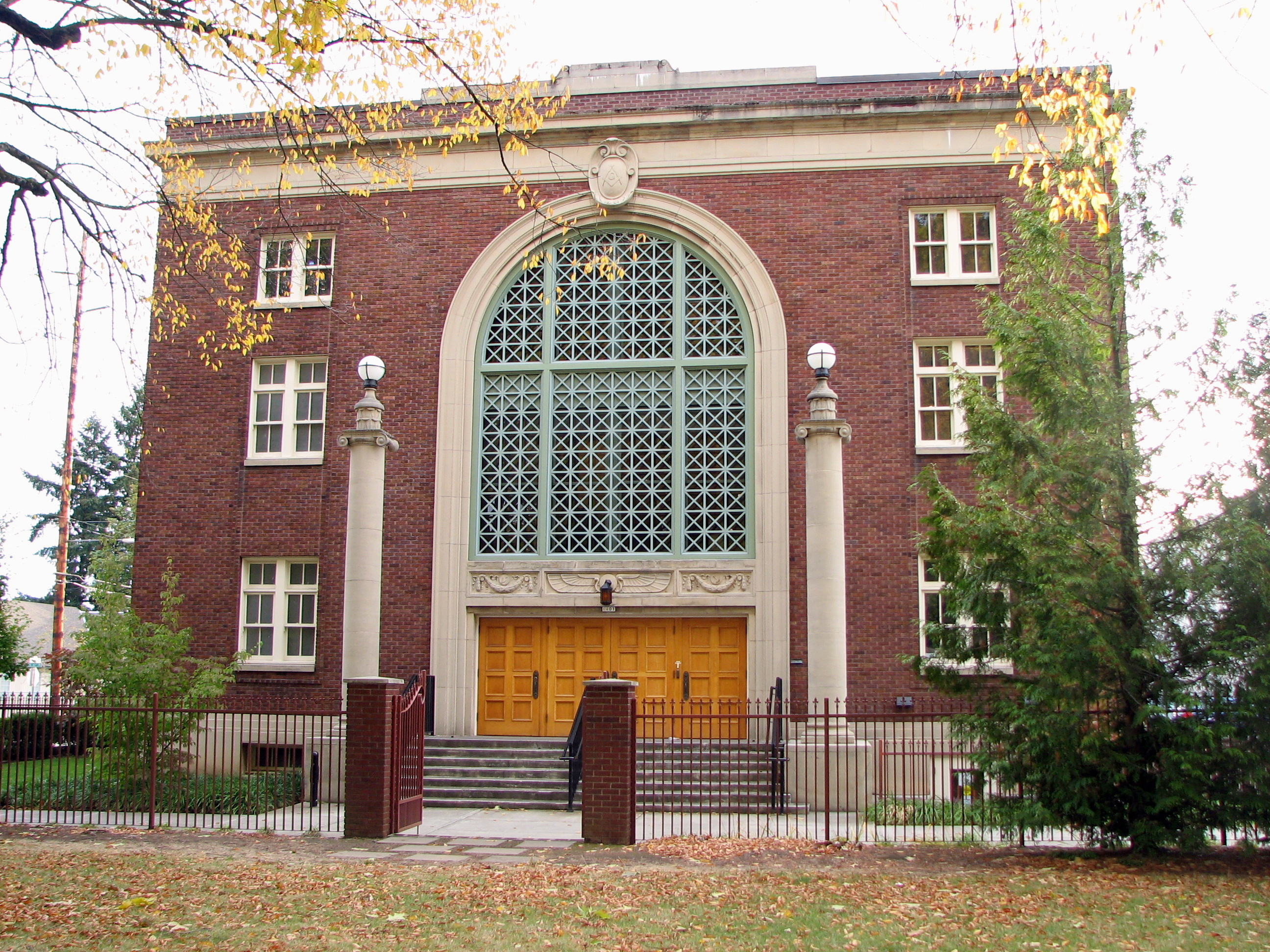 The historic Palestine Lodge (built 1926), located at 6401 Southeast Foster Road in Portland, Oregon, United States, is listed on the US National Register of Historic Places.